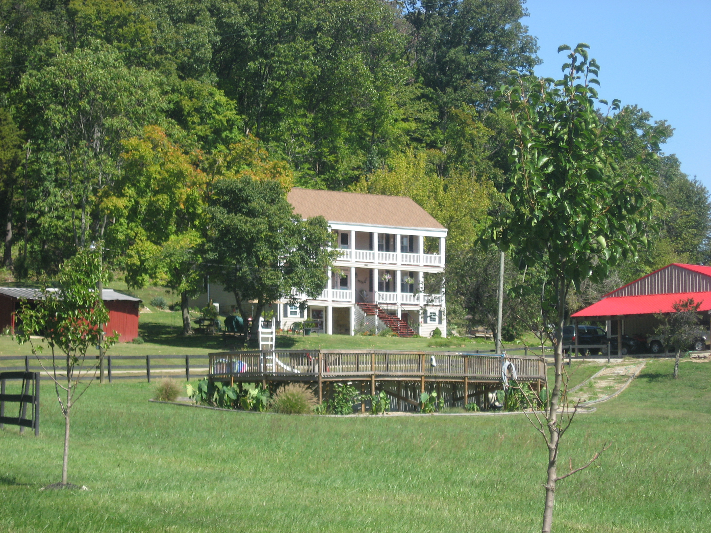 Roadside view of the Gabriel Farnsley House, located on Seven Mile Lane southwest of New Albany in Franklin Township, Floyd County, Indiana, United States. Built in 1856, it is listed on the National Register of Historic Places.